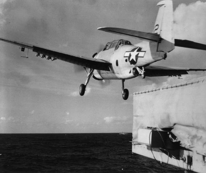 Ensign Hudson launches to attack U-544 and U-129. Upon his return to Guadalcanal he crashed his aircraft landing at night. A wing camera similar to the one that took the next two photos from Ensign McLane's aircraft can be seen outboard of the rockets on the port wing.